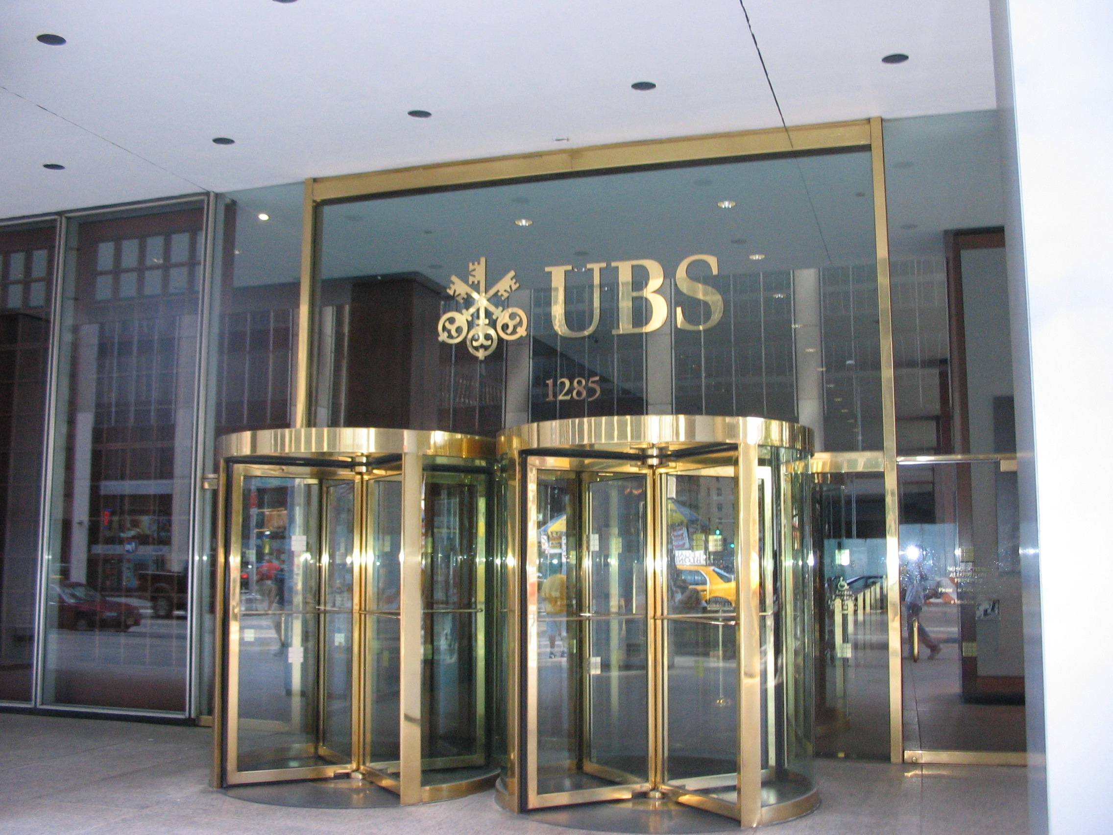 Entrance to UBS building in Midtown Manhattan